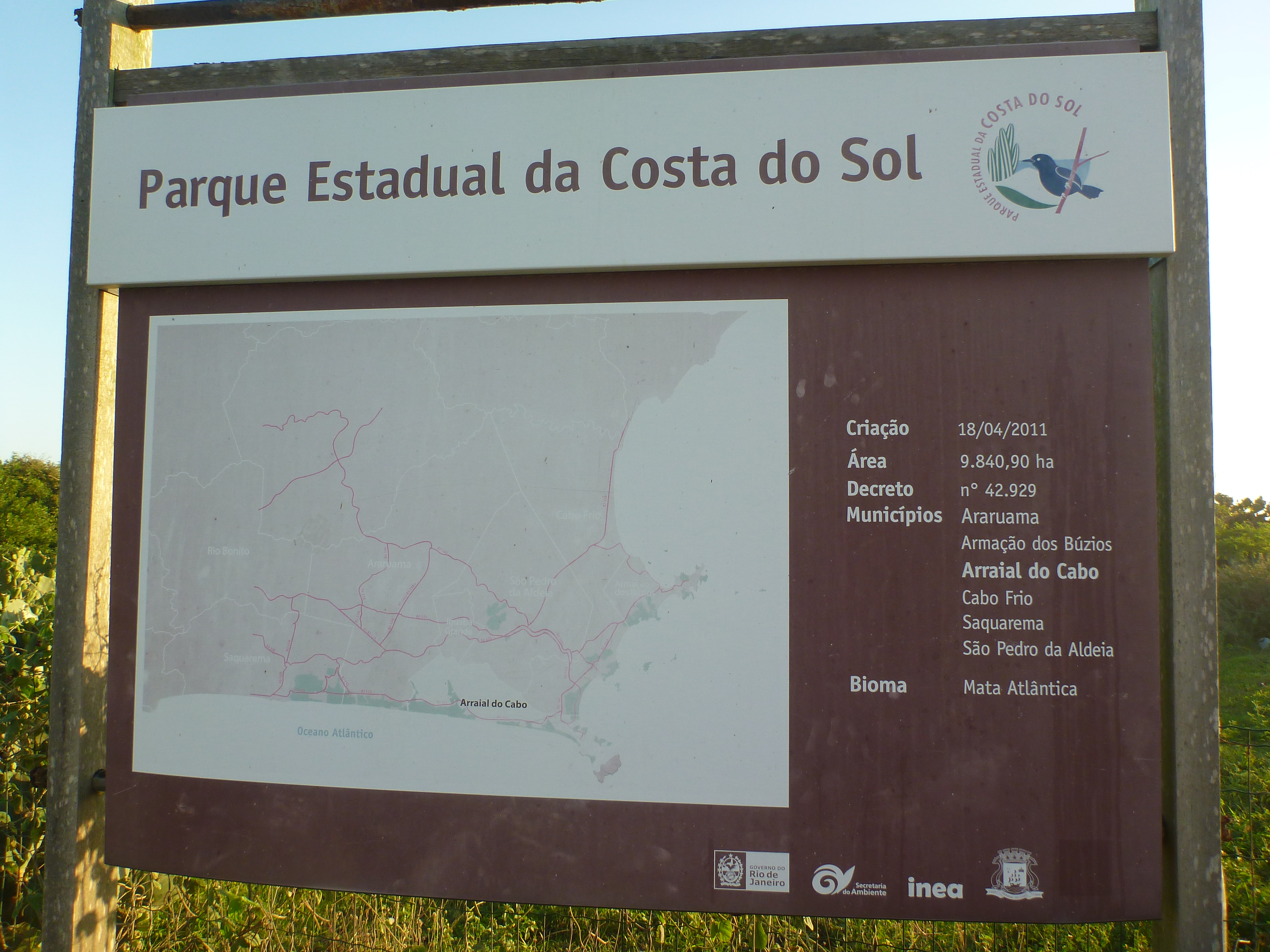 Entrance sign at the Parque Estadual da Costa do Sol